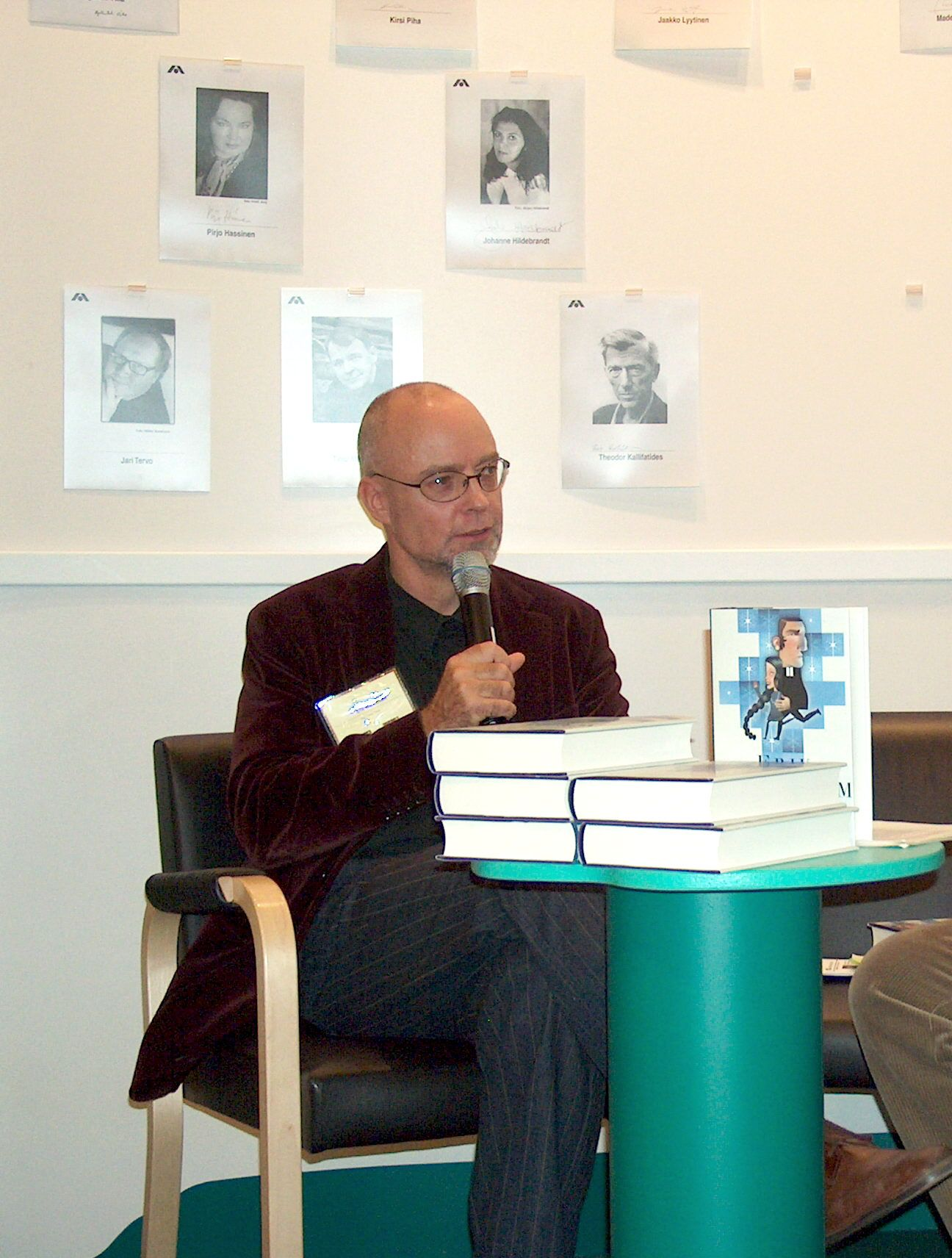 Erik Wahlström, Finnish writer, at the Helsinki Book Fair in 2004